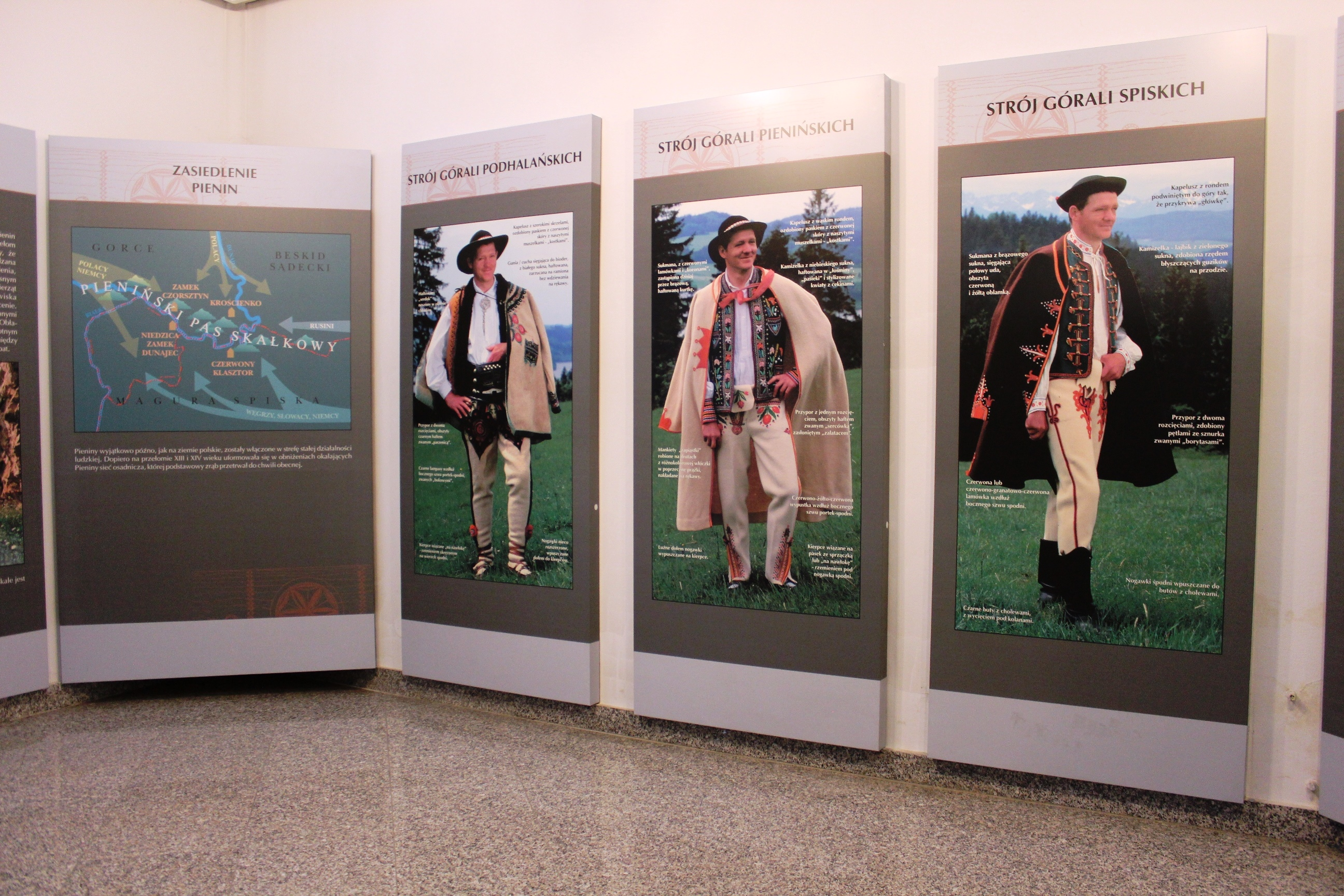 Museum of Pieniny National Park